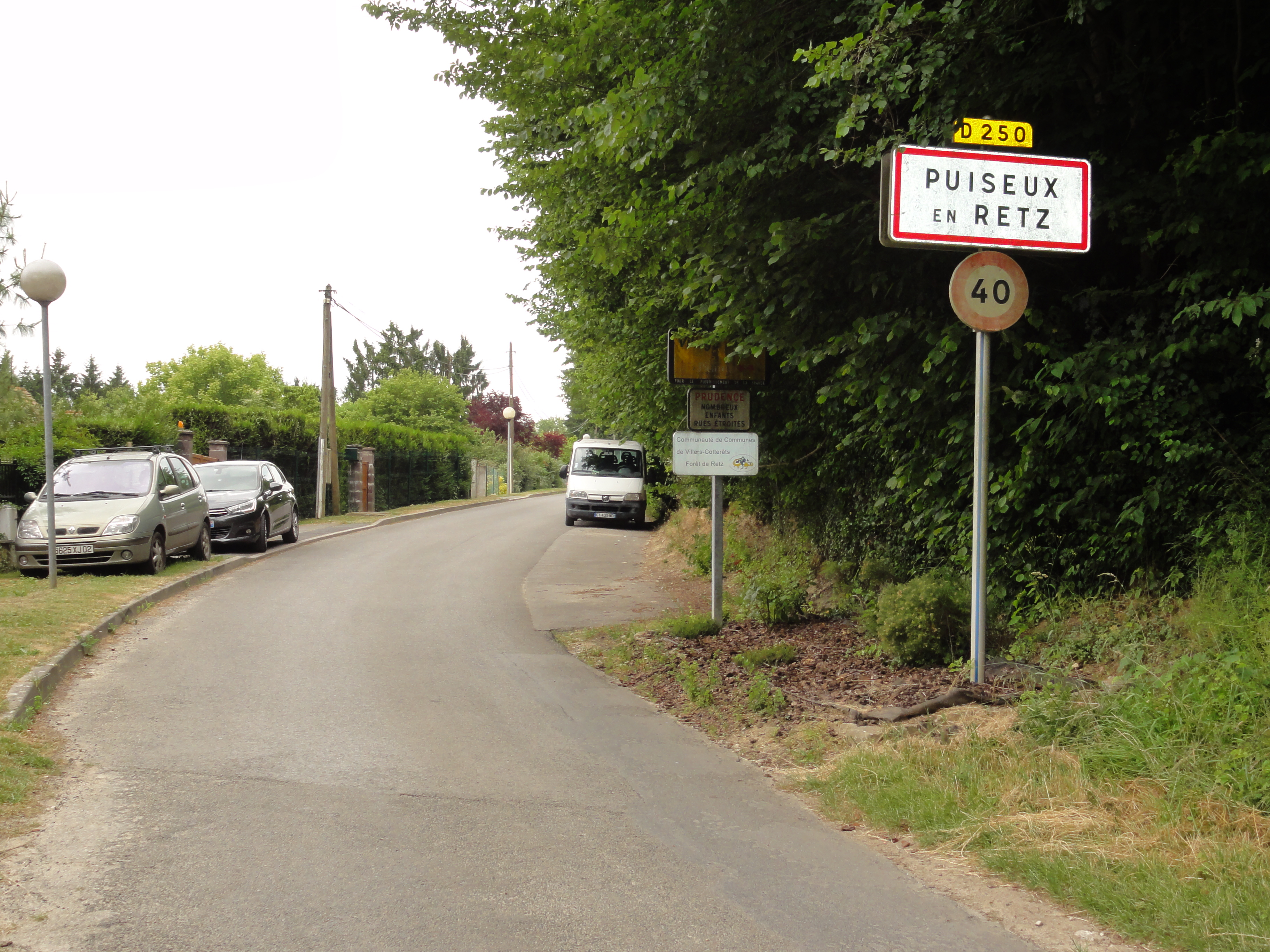 Puiseux-en-Retz (Aisne) city limit sign